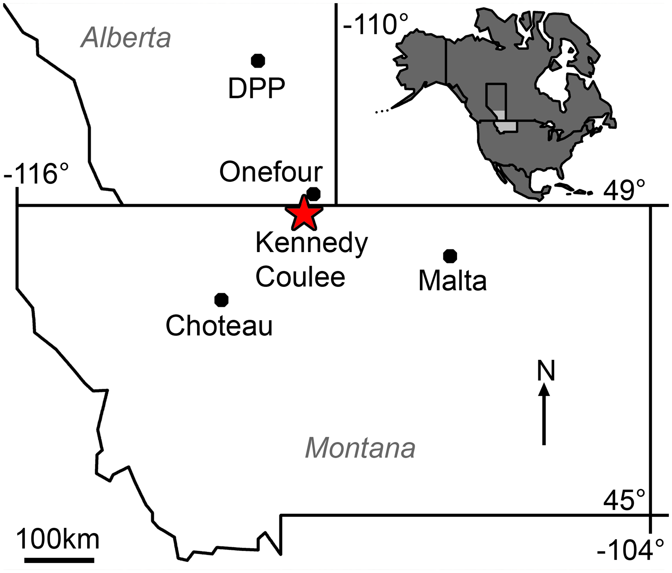 Map of Brachylophosaurini localities in Montana and southern Alberta. Inset shows North America in dark grey with Montana and southern Alberta in light grey. Kennedy Coulee, locality of Probrachylophosaurus bergei gen. et sp. nov., marked with red star. Other Brachylophosaurini localities indicated with black dots: Malta, Brachylophosaurus canadensis; Onefour, B. canadensis; DPP (Dinosaur Provincial Park), B. canadensis; Choteau, Acristavus gagslarsoni and Maiasaura peeblesorum.